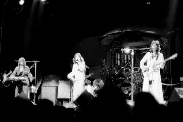 Yes at the USC Coliseum in Columbia, South Carolina, 1974.